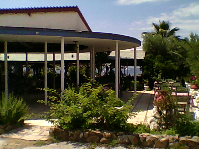 Tourist pavillion "Touristiko Periptero" built in 1959, at the central seaside of Yerakini, Central Macedonia, Greece, nowadays a tavern, bar,June 2014